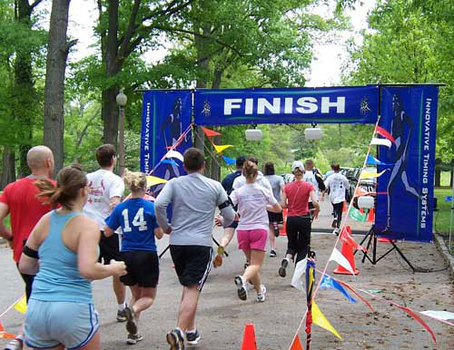 I am the author and the source of the photo from my website. It is a finish line of a Jaguar-timed race.